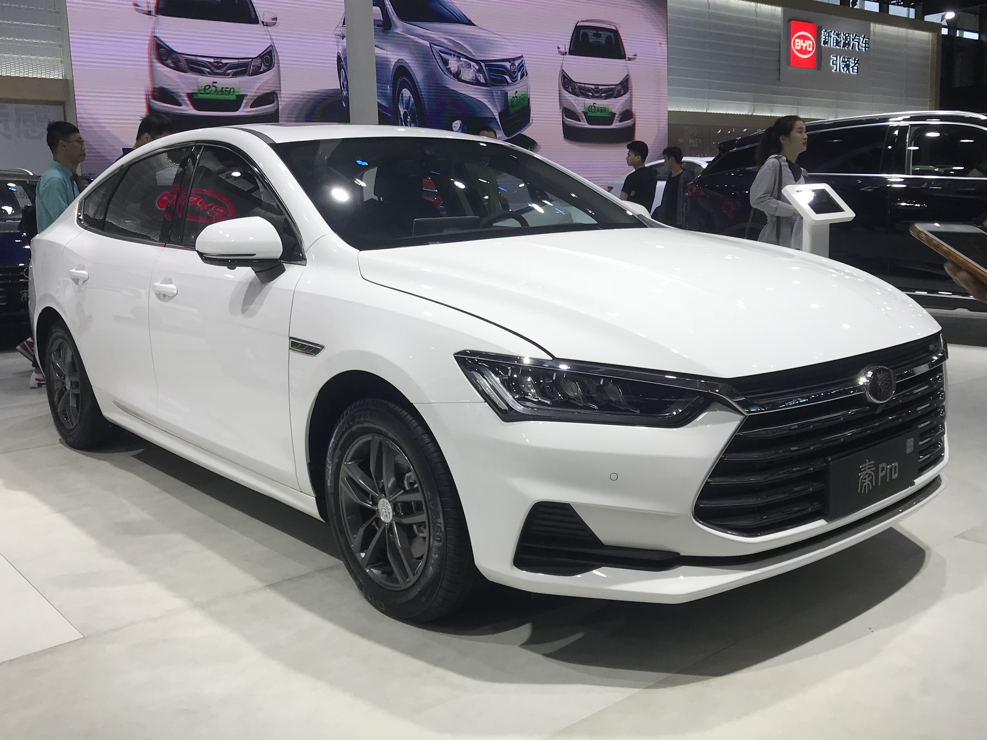 BYD Qin II front